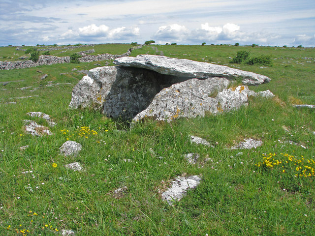 Ballymihil Wedge Tomb in the Burren